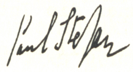 Paul Stefan (b. 1879, d. 1943; austrian music critic and author), autograph signature